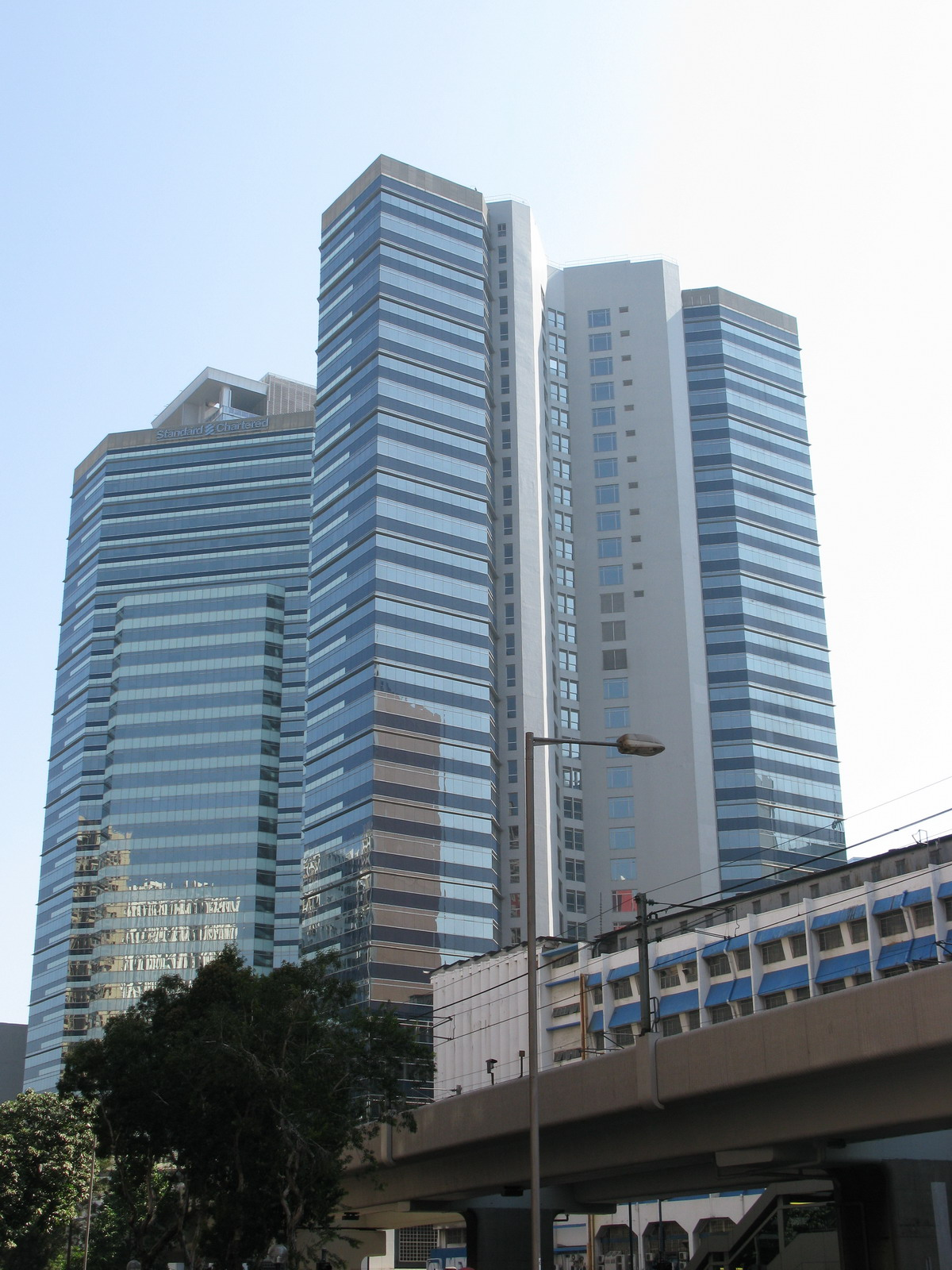 創紀之城一期 Millennium City Phase 1